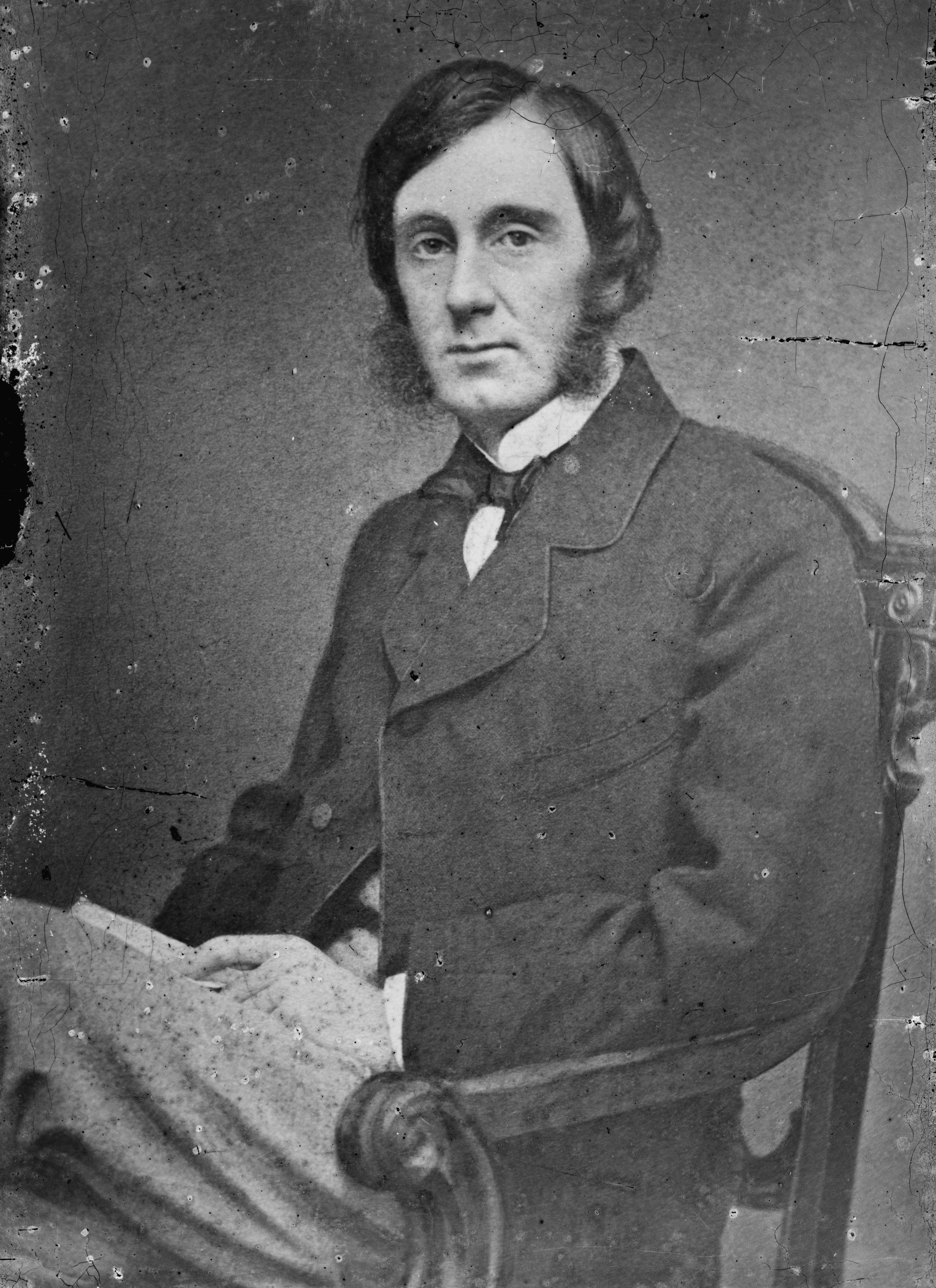 George William Curtis. Library of Congress description: "Geo. Wm. Curtis"